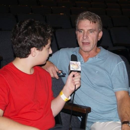 Interview with Robert Stromberg